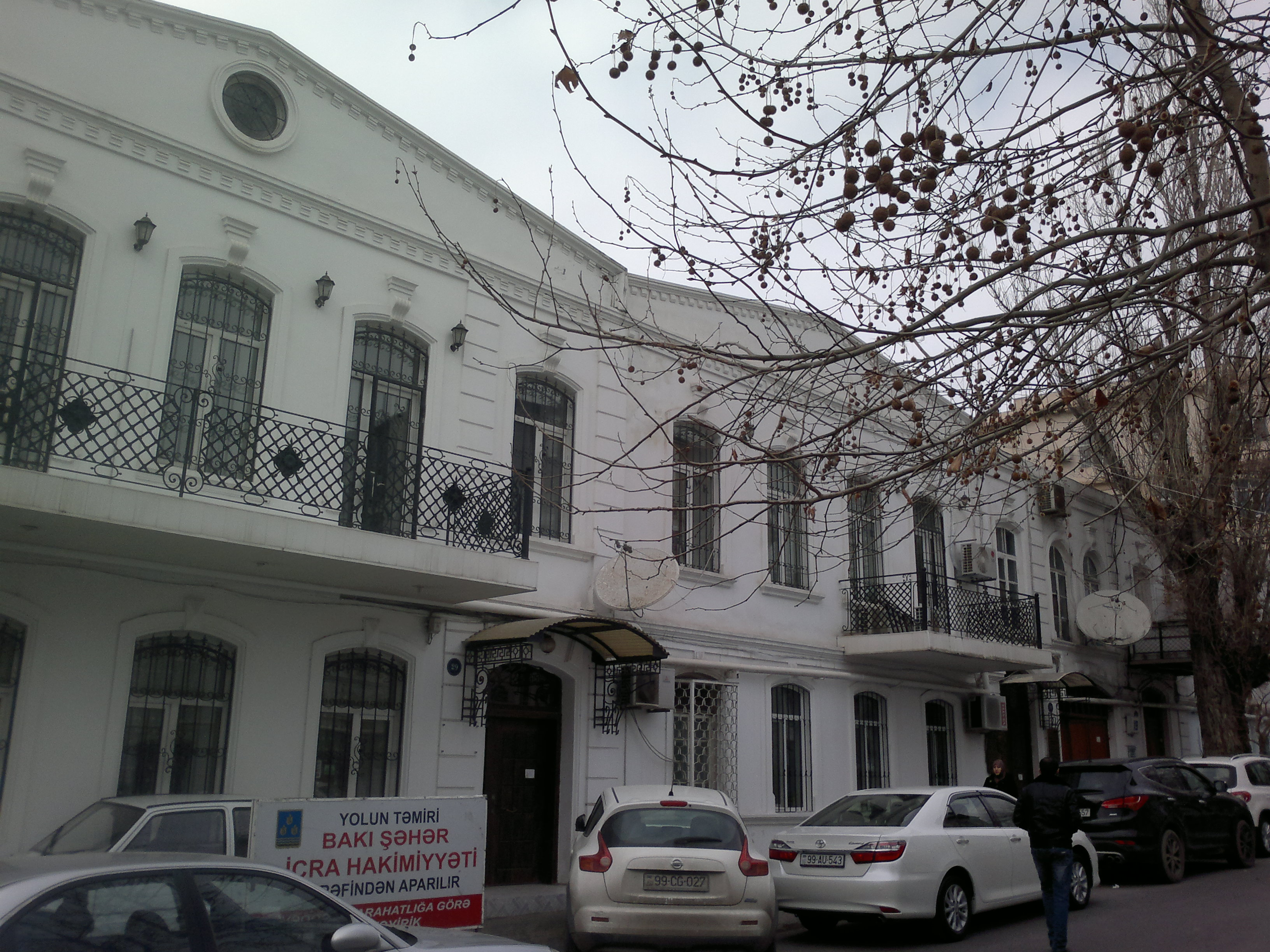 Building pn Rostropovichs Street 19. Mstislav Rastropovich üas born here in 1927.